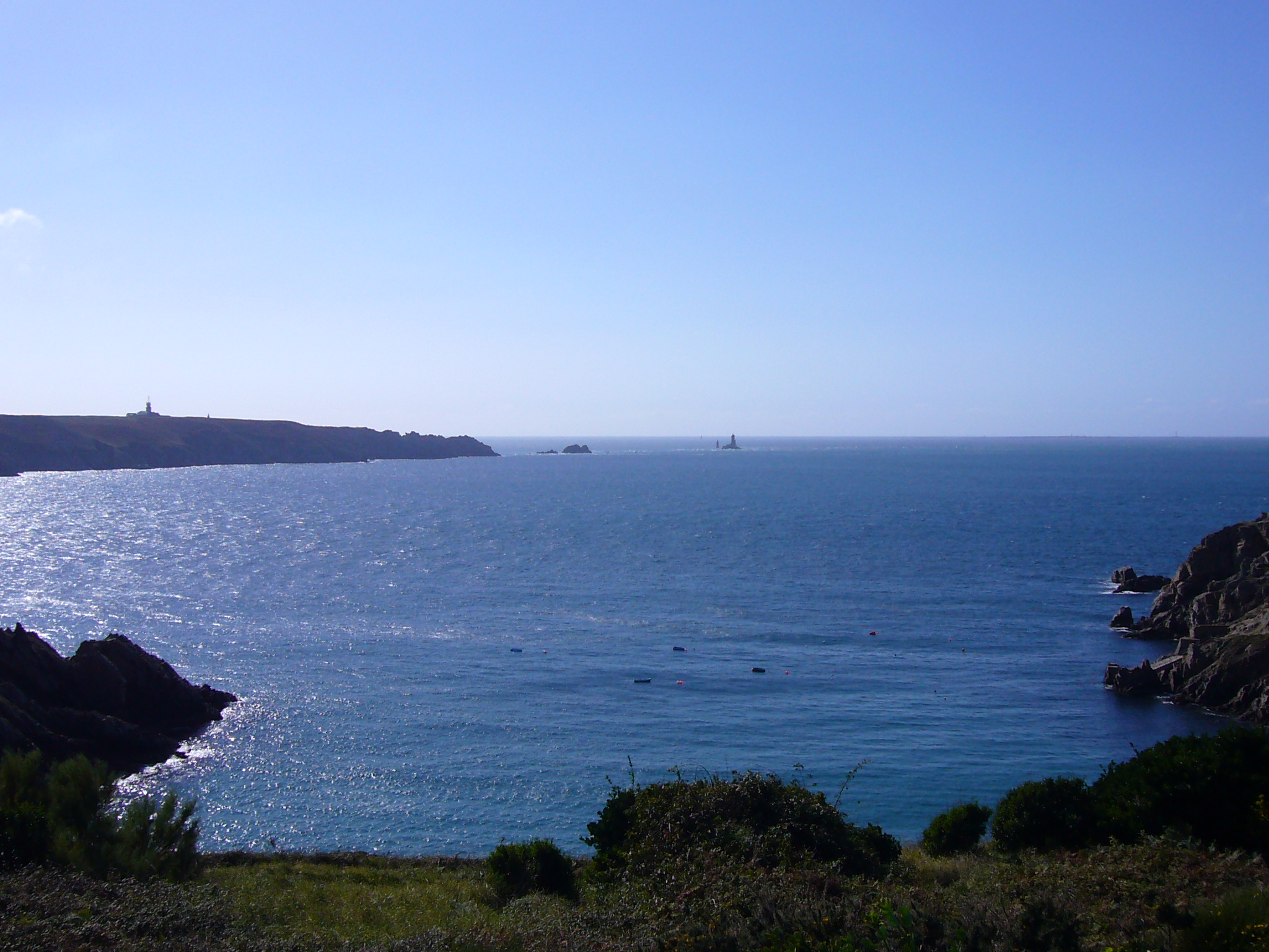 Looking at Pointe du Raz from the North. See also Pointe du Raz.